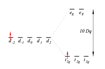 Electron levels in octahedral crystal field